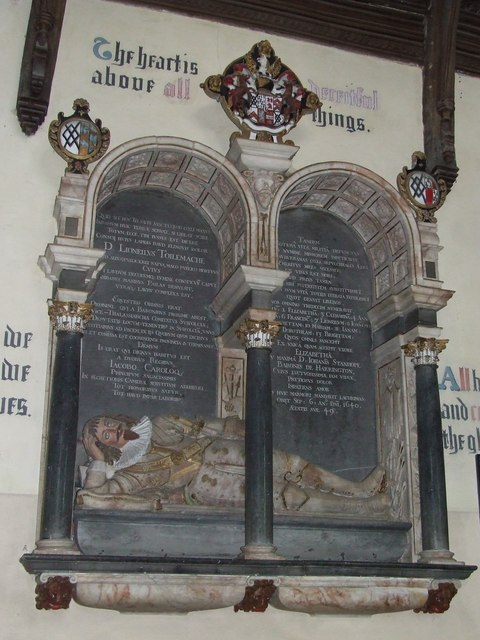 St Mary's Helmingham St Mary's Helmingham Interior of St Mary's Helmingham Suffolk. Monument to Sir Lionel Tollemache, 2nd Baronet (2 August 1591 – 6 September 1640) PC, of Helmingham Hall in Suffolk. More info see [1]. Left: arms of Tollemache impaling Cromwell (for Sir Lionel Tollemache, 1st Baronet (1562–1612) of Helmingham, who married Katharine Cromwell, a daughter of Henry Cromwell, 2nd Baron Cromwell). Right: Tollemache impaling Stanhope, for Sir Lionel Tollemache, 2nd Baronet (1591-1640) (son of 1st Baronet) who married Elizabeth Stanhope, a daughter of John Stanhope, 1st Baron Stanhope of Harrington. Centre: Tollemache of 8 quarters: (Source: Heraldic Visitations of Suffolk, 1561, pp.70-1[2] 1&8: Tollemache 2: Curson (Ermine, a bend gobony sable and argent) 3: Visdelew (Argent, three wolf's heads couped gules) 4: Spise (Argent, a fess between two chevrons gules) 5: Joce (Argent, on a chevron per pale gules and azure three escallops of the field) 6: Creke (Or, a lion rampant azure double-queued a bordure gules) 7: Soterly (Gules, a fess ermine between three round buckles or)